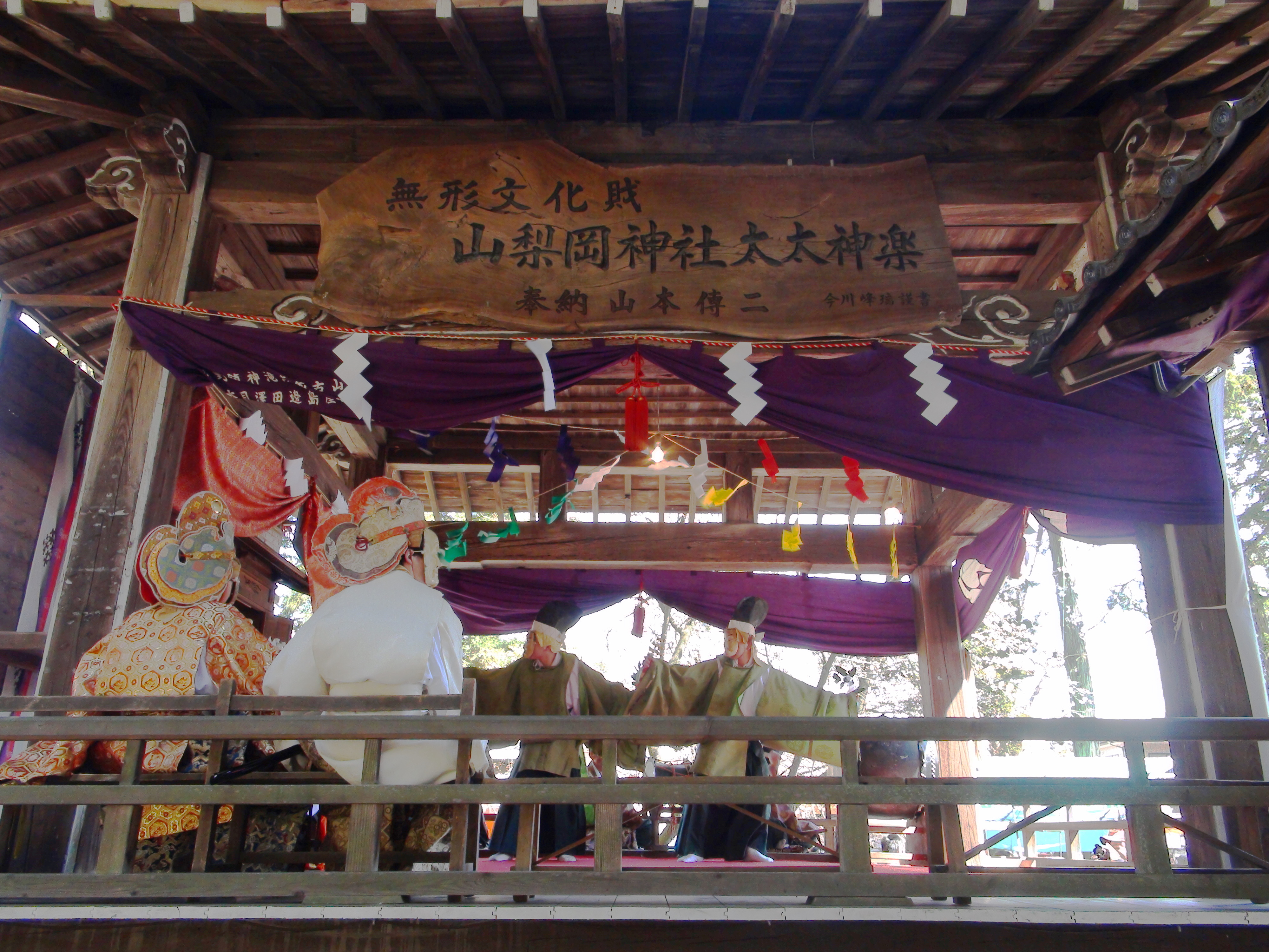 Yamanashi-oka shrine Daidai Kagura（The ceremony of a traditional Shinto shrine）